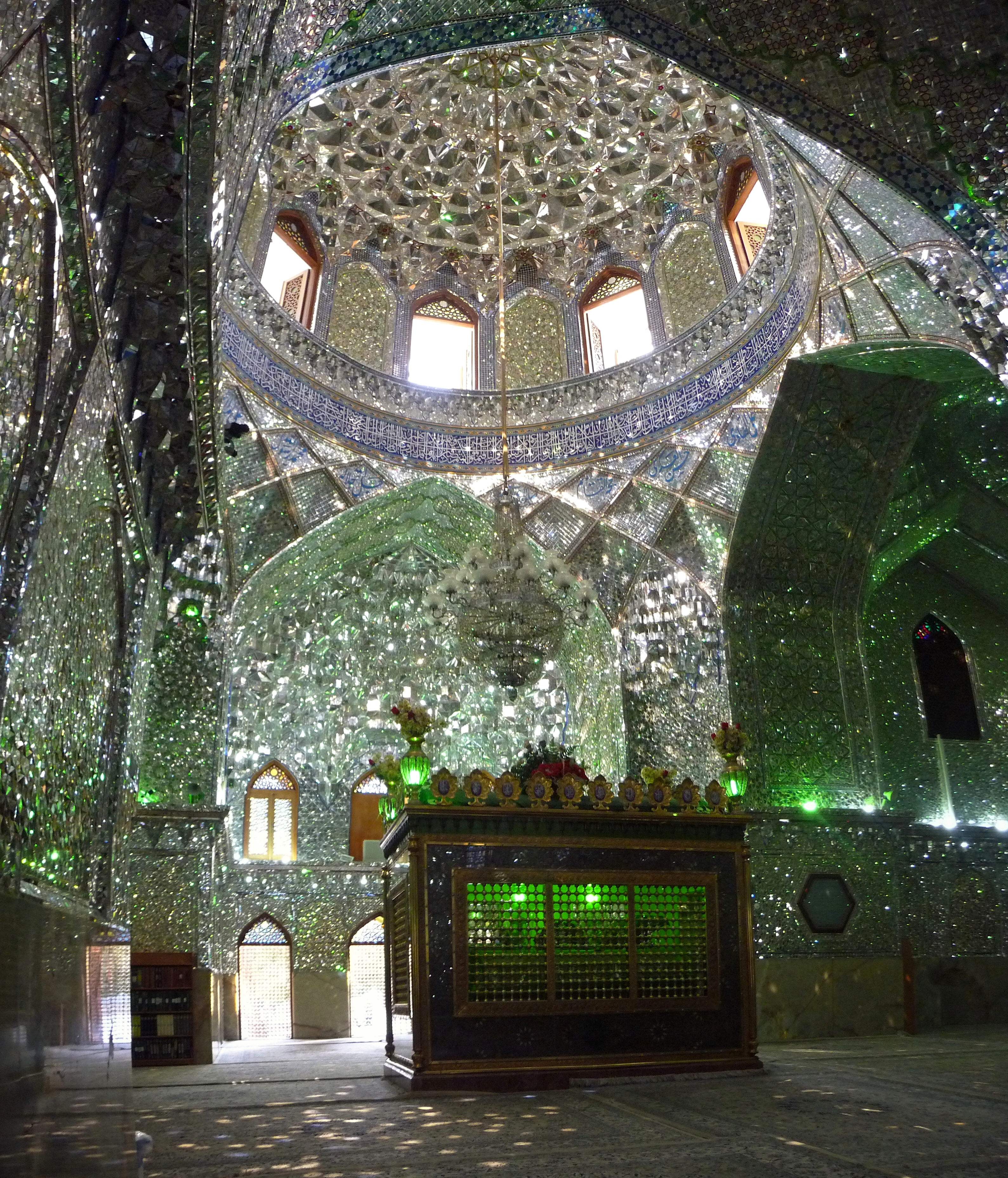 Interior of the Tomb of Emir Ali in Shiraz (Fars, Iran).